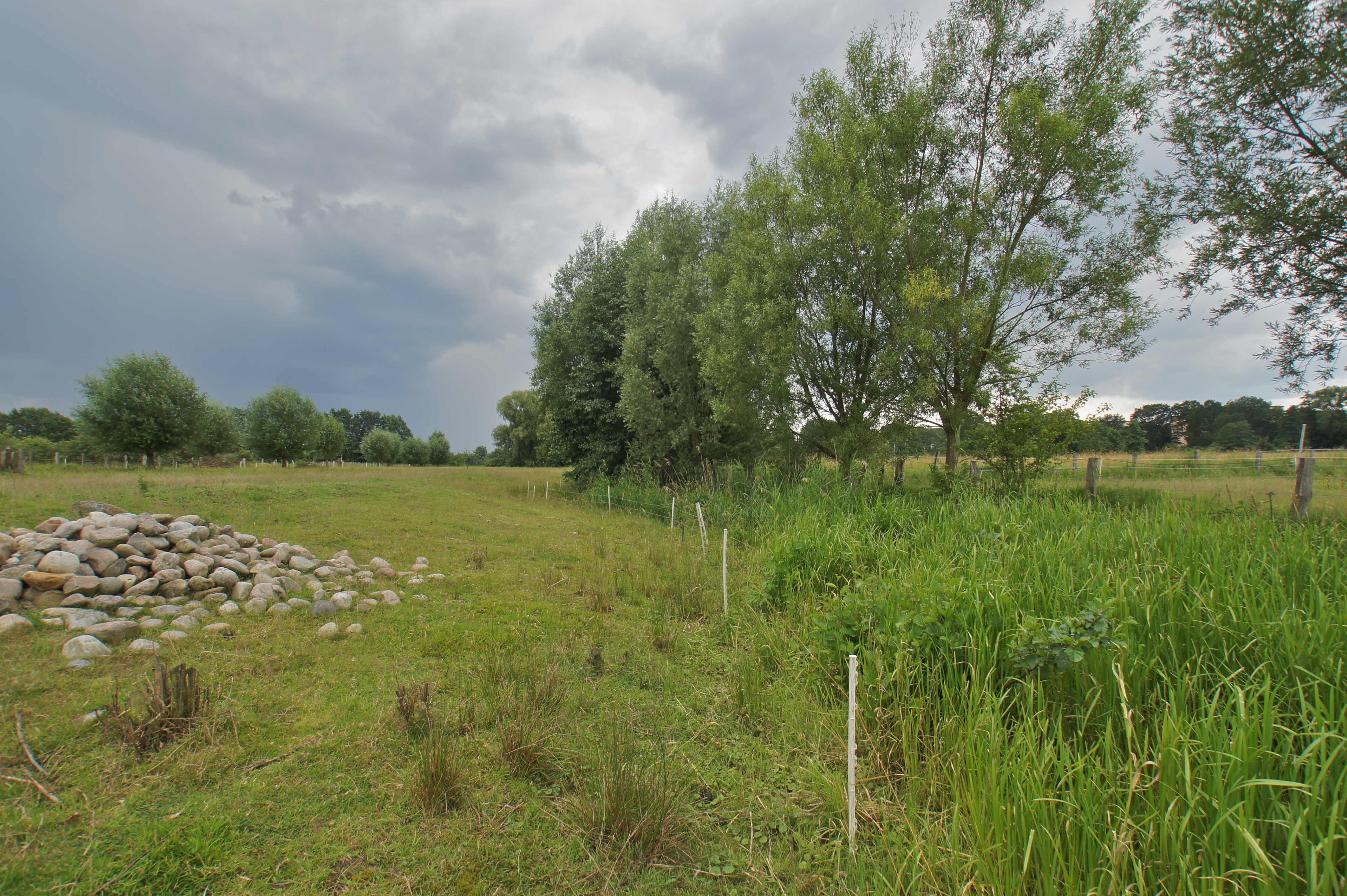 Hamburg (Iserbrook), Germany: Wet meadows where the Düpenau springs